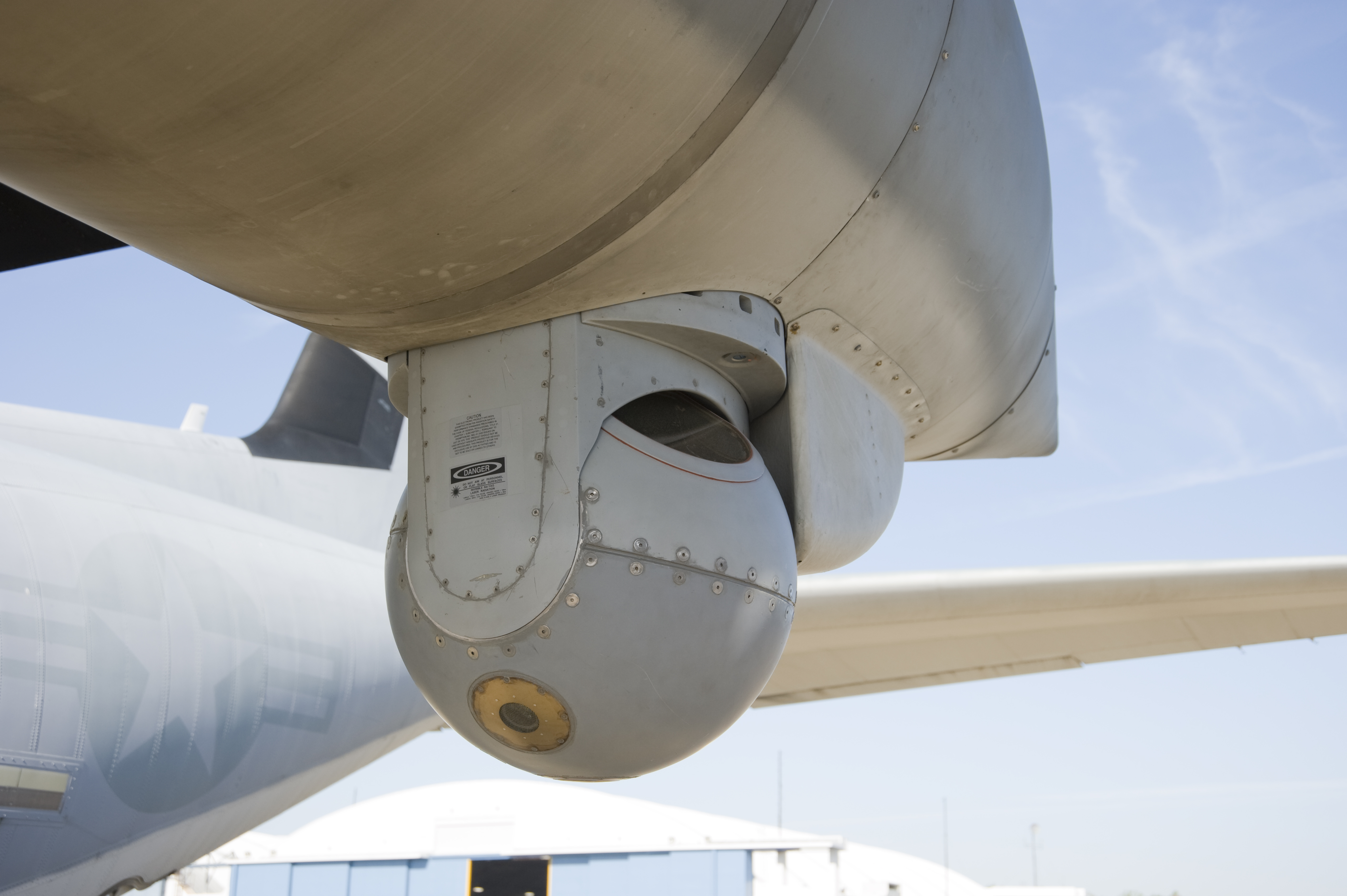 “Close up of the Target Sight Sensor mounted in the left hand under wing fuel tank.” Harvest HAWK equipped KC-130J